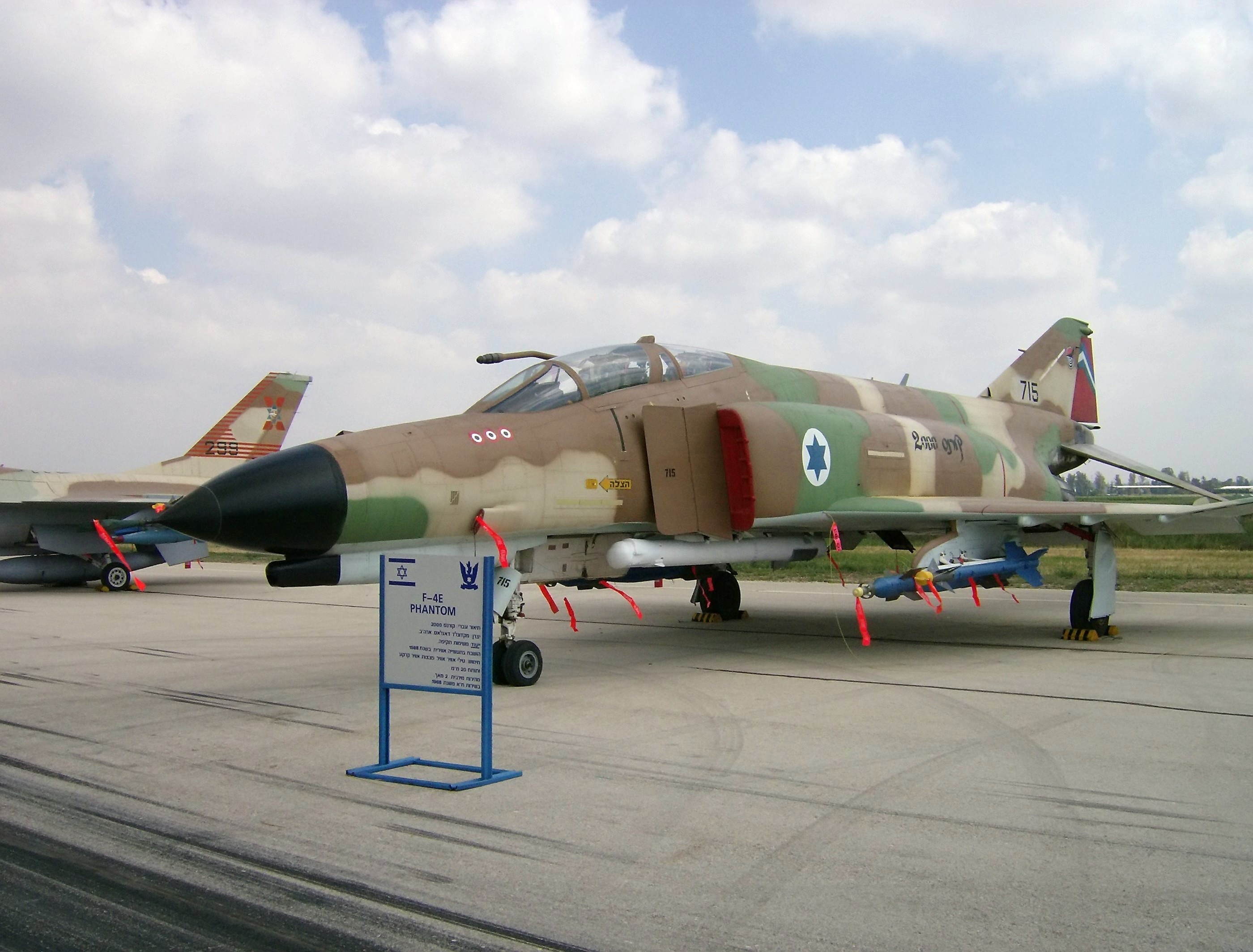 Israeli McDonnell Douglas F-4E Phantom II at Tel Nof, Israel, in 2007. Česky: Izraelský stíhací letoun McDonnell Douglas F-4E Phantom II na letecké základě Tel Nof, Izrael, 2007